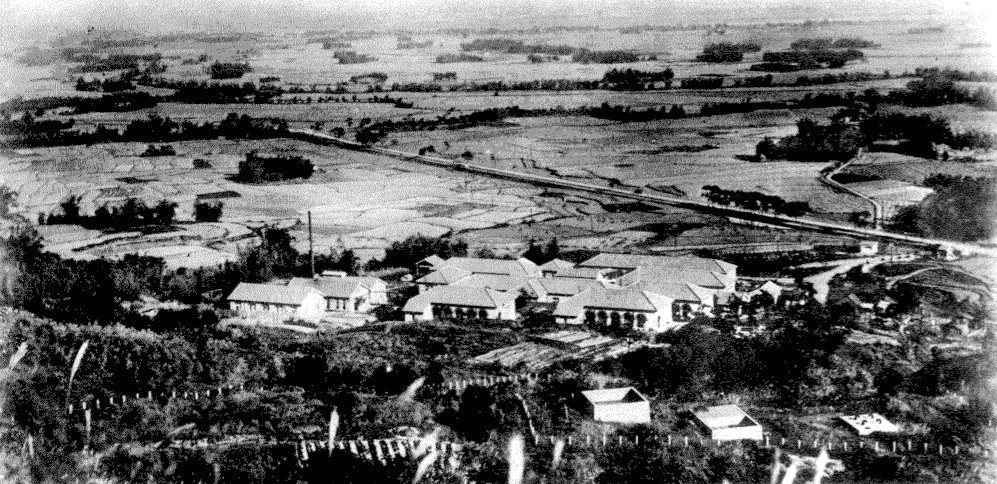 Birdview of Rakuseiin (c. 1932)